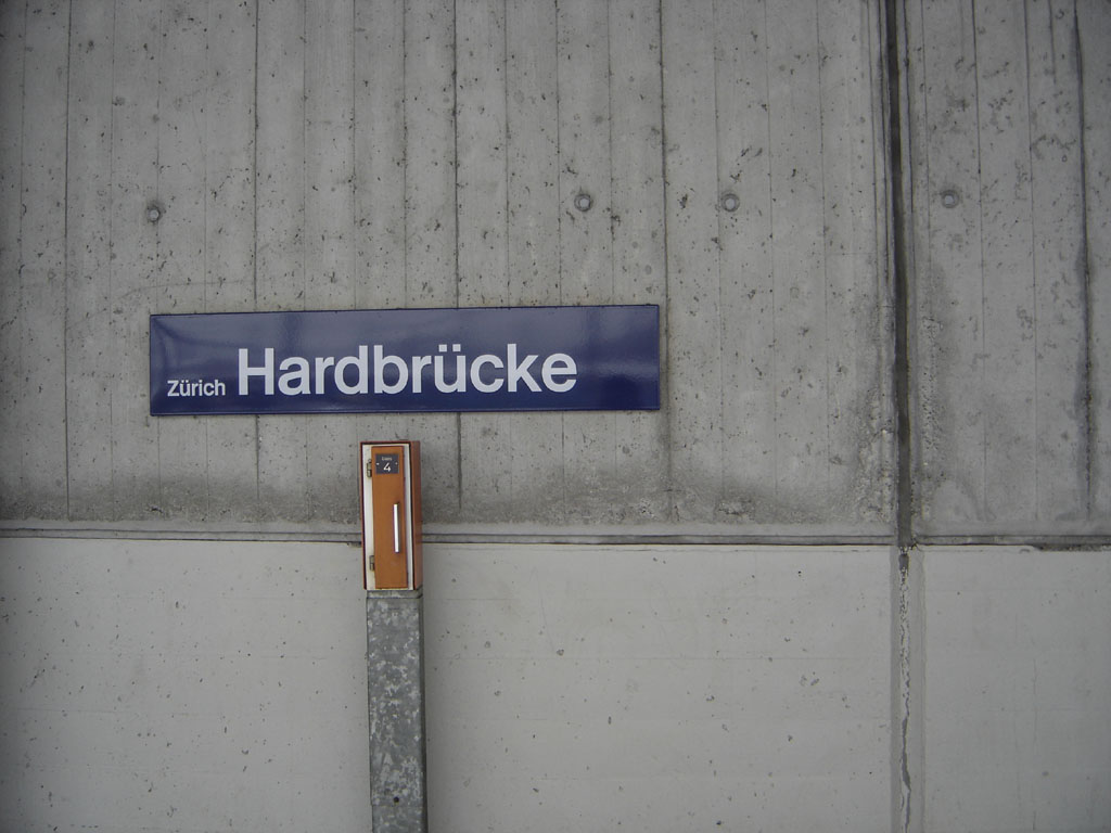 Label of Bahnhof Hardbrücke